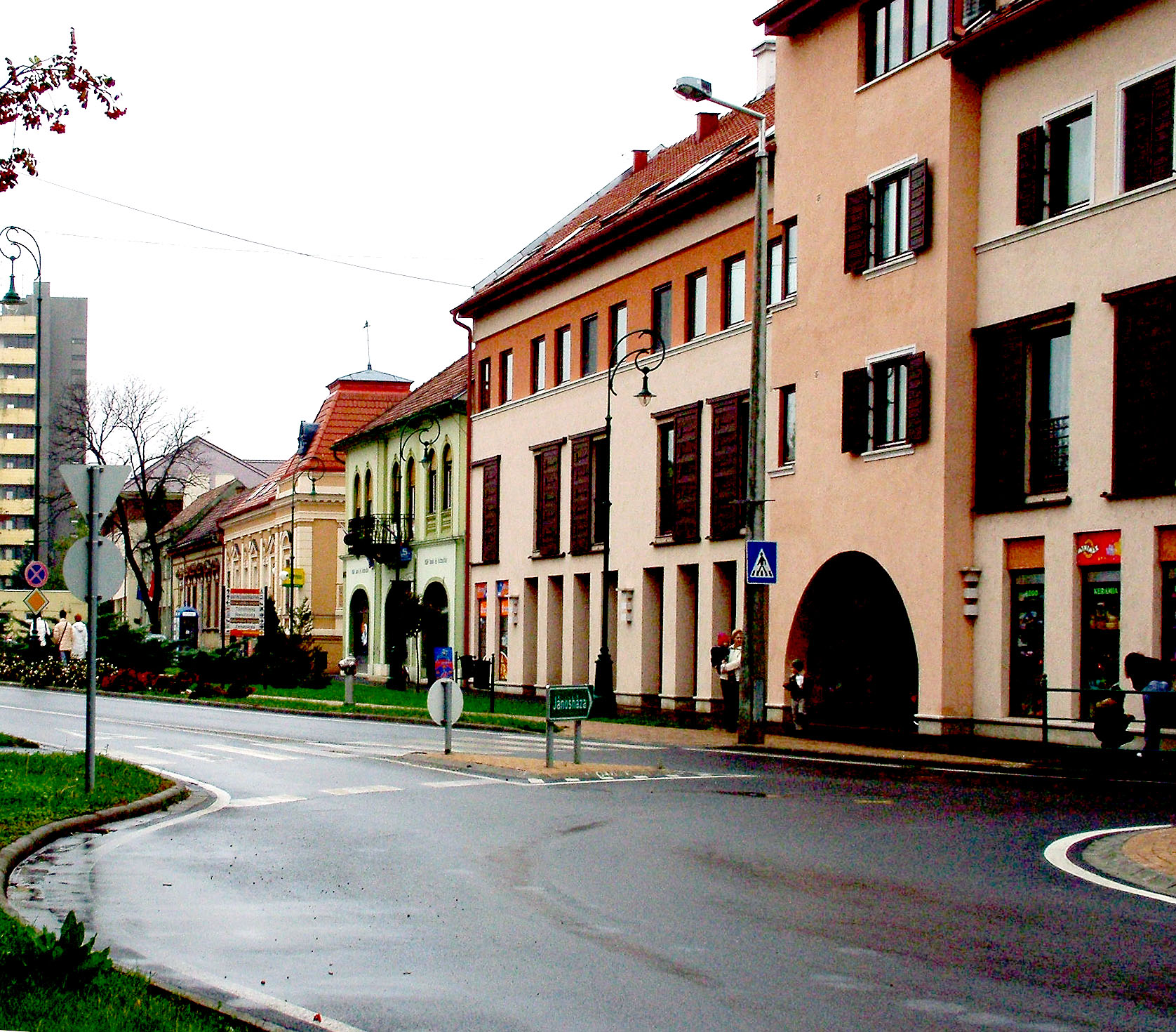 Downtown in Celldömölk